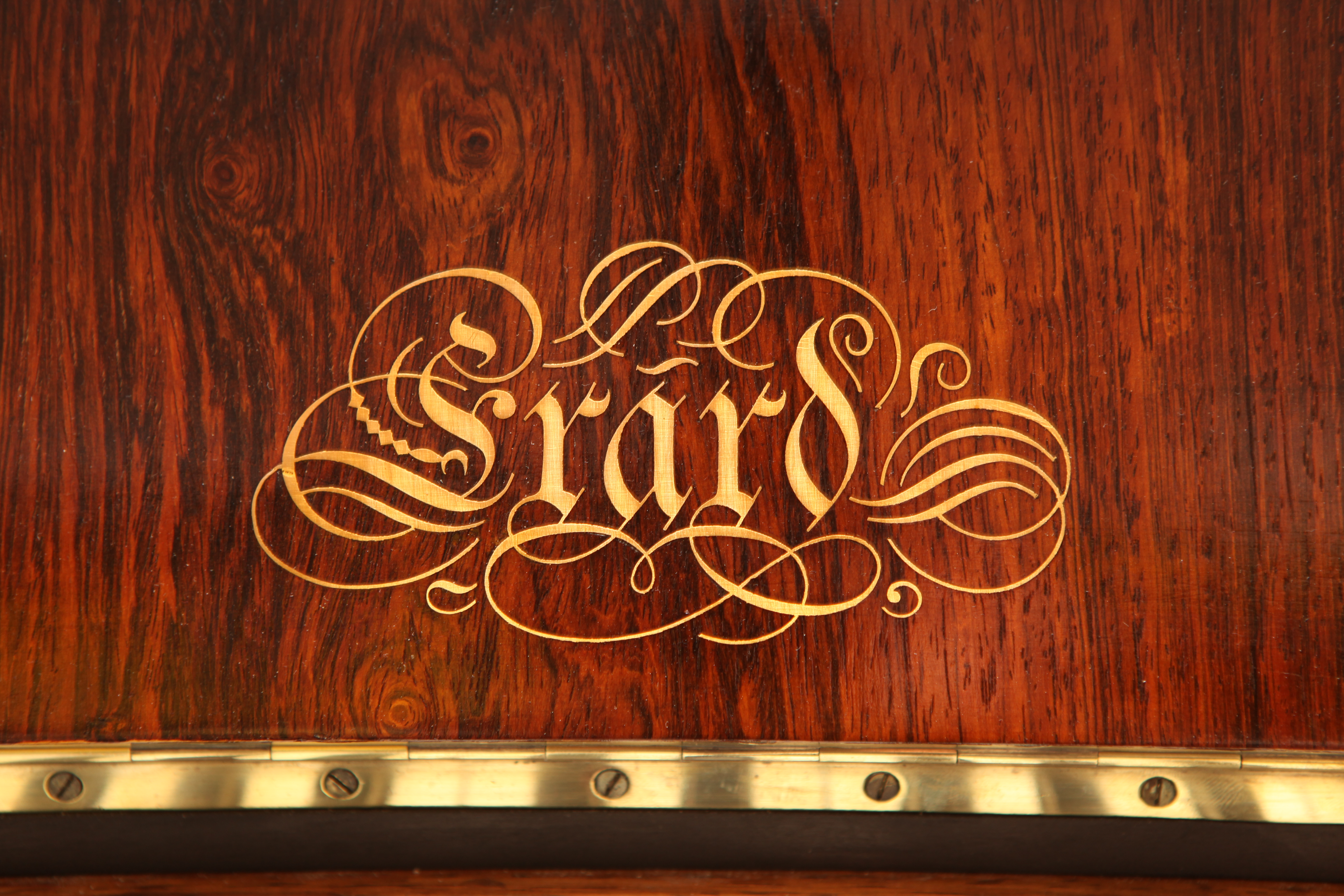 Erard piano